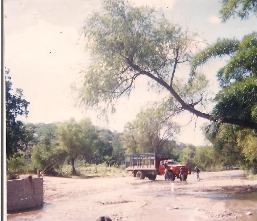 Antes del puente asi era el paso hacia Sección tercera y San Isidro.